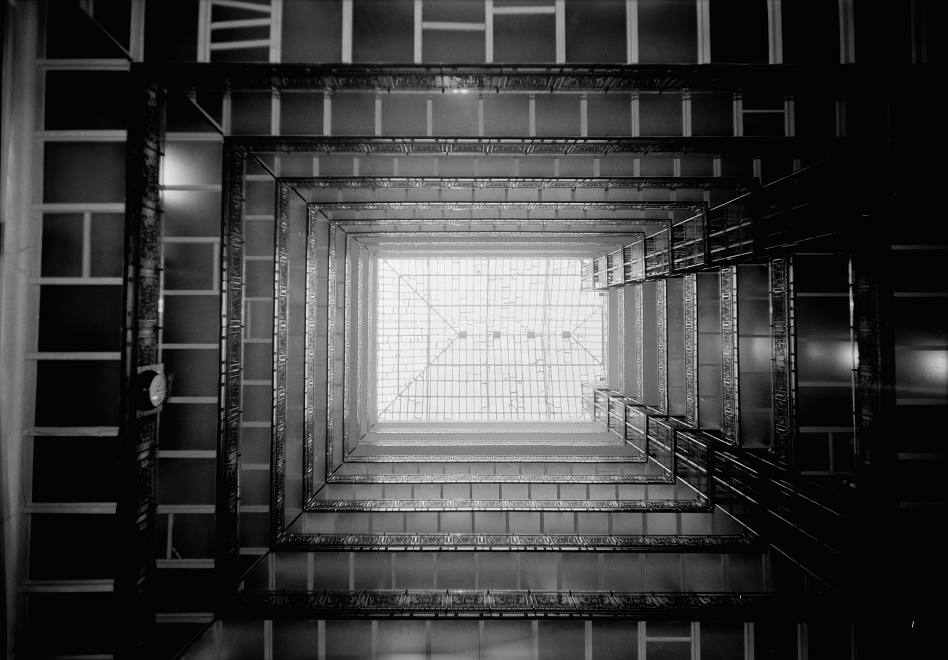 Interior view of Metropolitan Building, Minneapolis. Torn down 1961. Photo by Jack E. Boucher, November 1960. HABS No. MN-49-6. Also see :Image:Metropolitan Building Minneapolis.jpg.